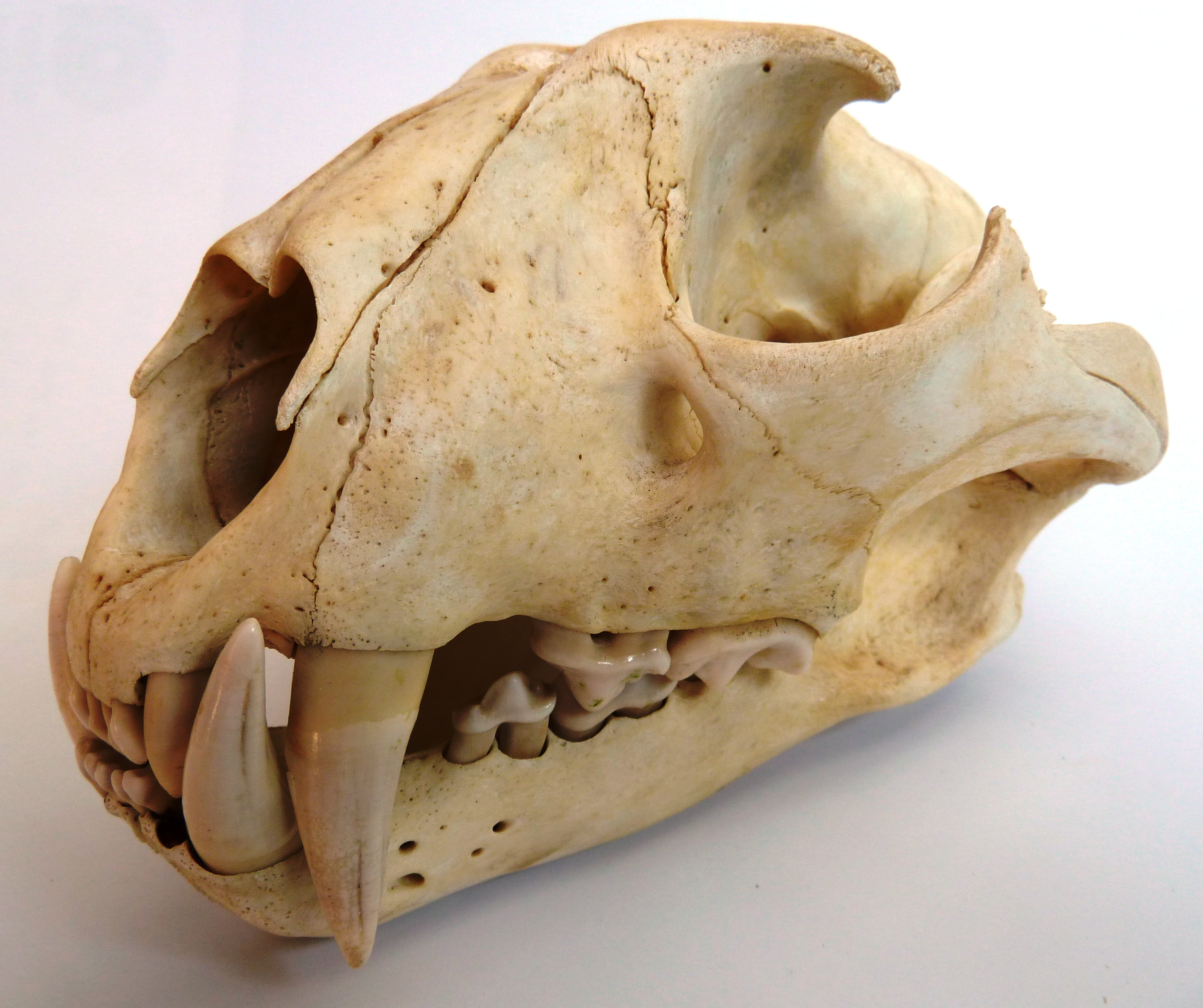 Oblique view of a female African Leopard skull